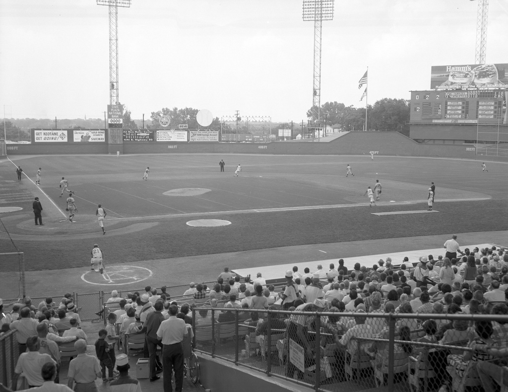 Collection Name: Commerce and Industrial Development Collection Photographer/Studio: Unknown Description: View of crowd and field at Municipal Stadium during a game between the Kansas City Athletics and the New York Yankees. Coverage: United States - Missouri - Jackson - Kansas City Date: Not determined Rights: Copyright is in the public domain. Credit: Courtesy of Missouri State Archives Image Number: CID_060-334 Institution: Missouri State Archives